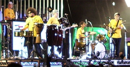 Beastie Boys at the Big Day Out concert in Melbourne, Australia. From left to right: Mix Master Mike, Alfredo Ortiz, MCA, Mike D, Adrock, Keyboard Money Mark (out of frame).